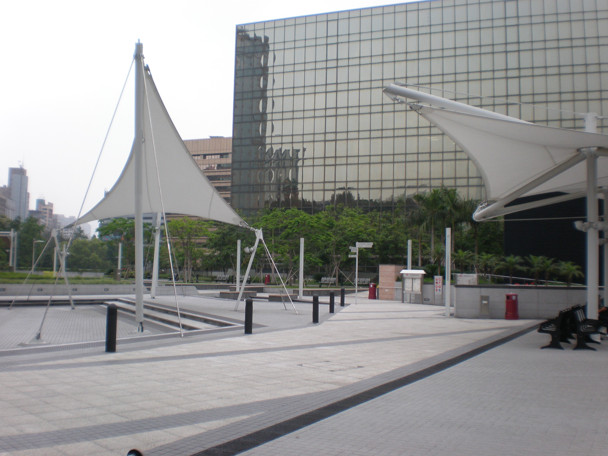 A section of the Tsim Sha Tsui East Waterfront Podium Garden in Kowloon, Hong Kong.